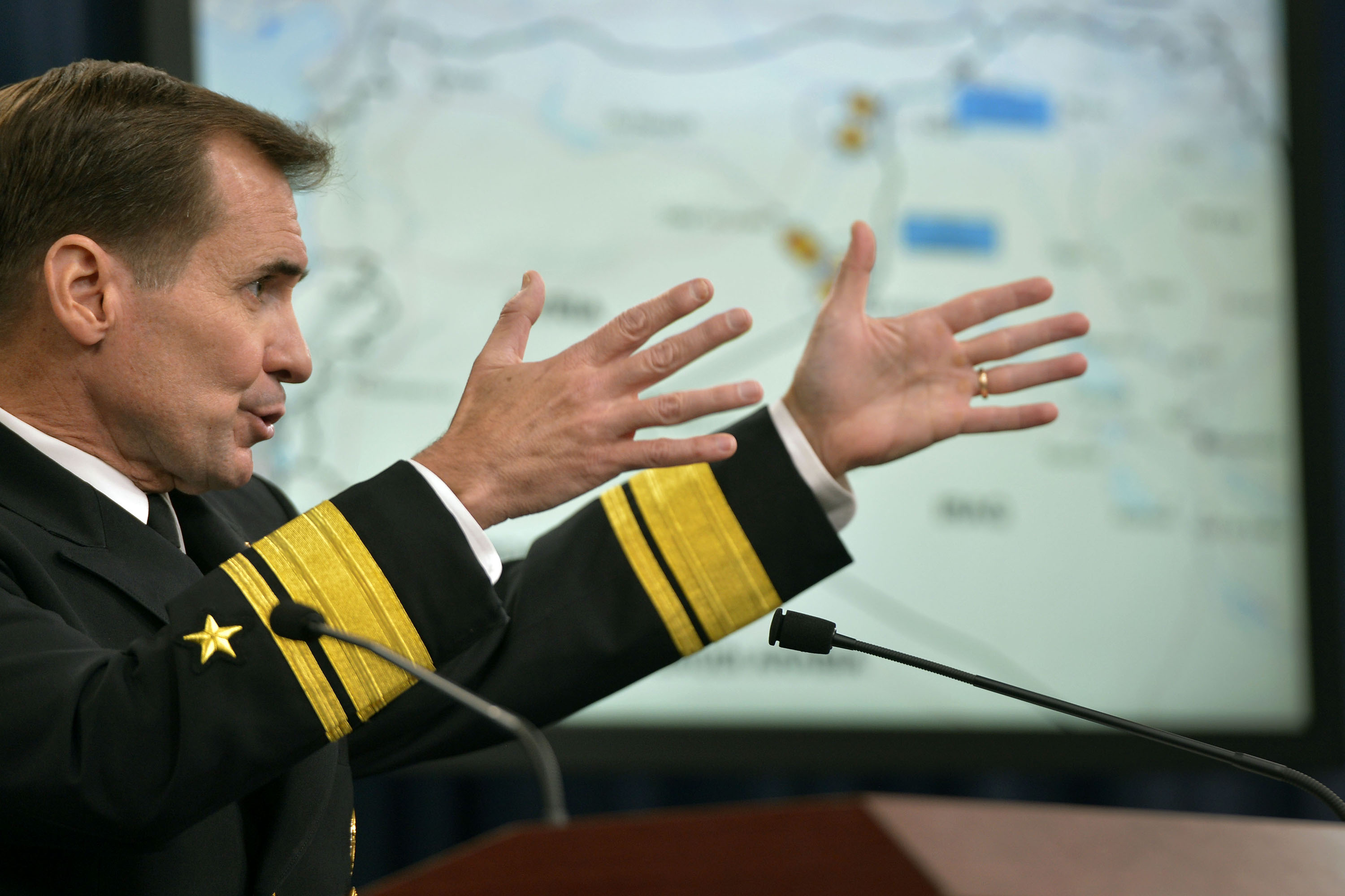 Pentagon Press Secretary Navy Rear Adm. John Kirby briefs reporters at the Pentagon, Sept. 25, 2014. Kirby showed slides and videos highlighting U.S. airstrikes on Islamic State of Iraq and the Levant targets in Syria and answered questions from reporters. DoD photo by Glenn Fawcett